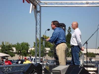 Armstrong and Getty at the April 16th, 2010 Tea Party rally in Sacramento, CA